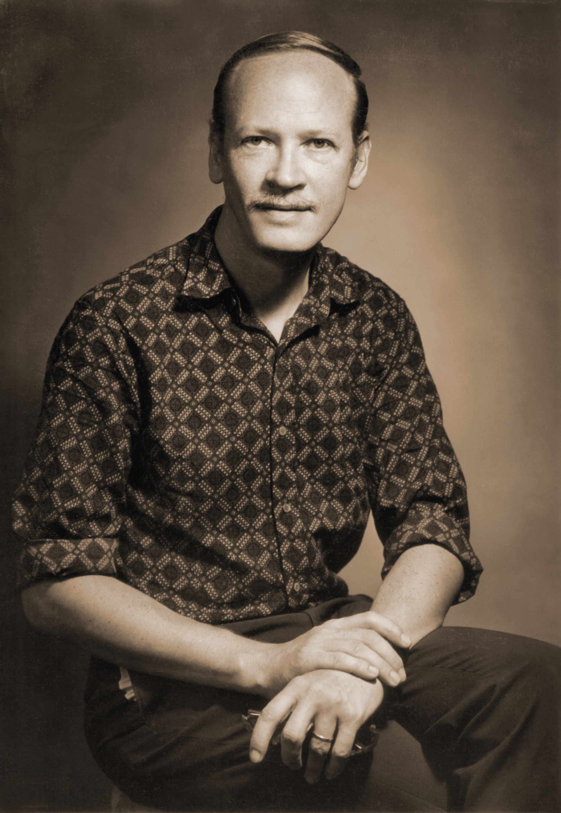 Portrait of the South African artist Christo Coetzee, taken by Dotman Pretorius, donated by the artist's stepson, Herman Binge.